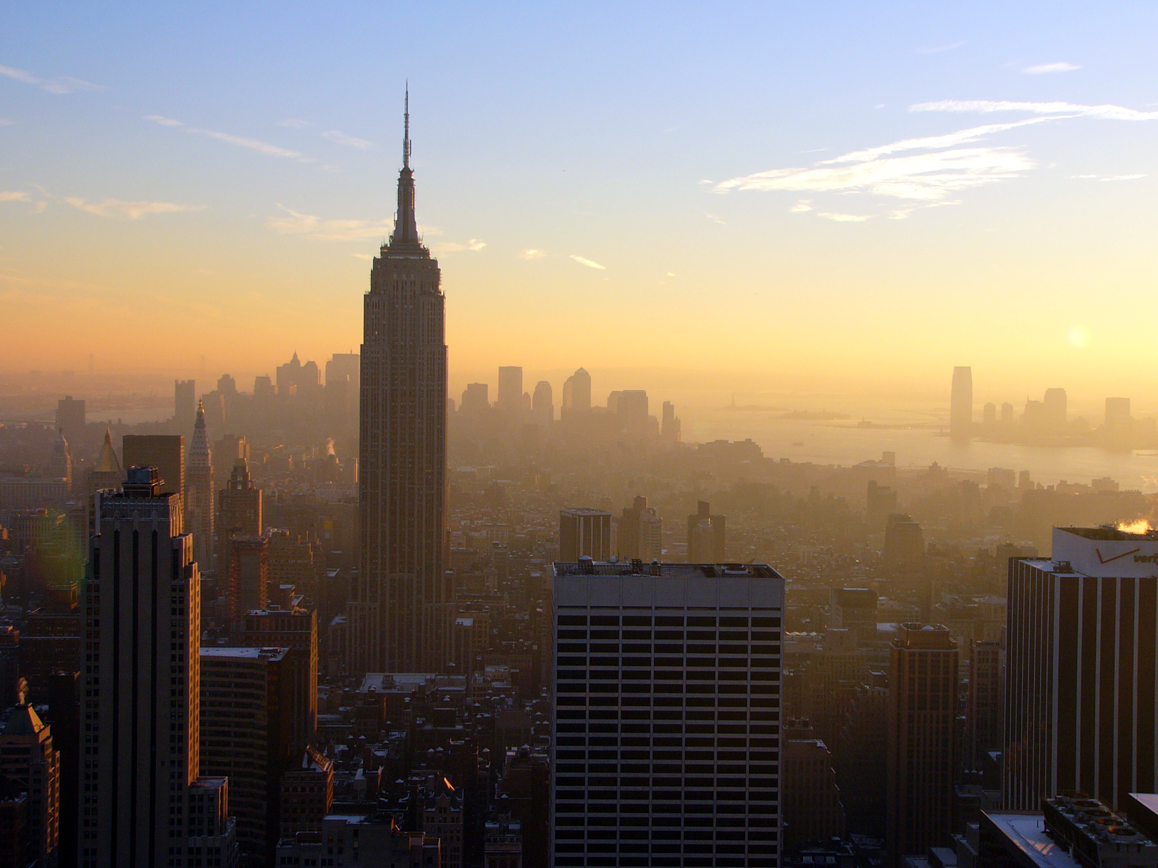 Empire State Building, New York City, USAFrom the 'Top of the Rock'